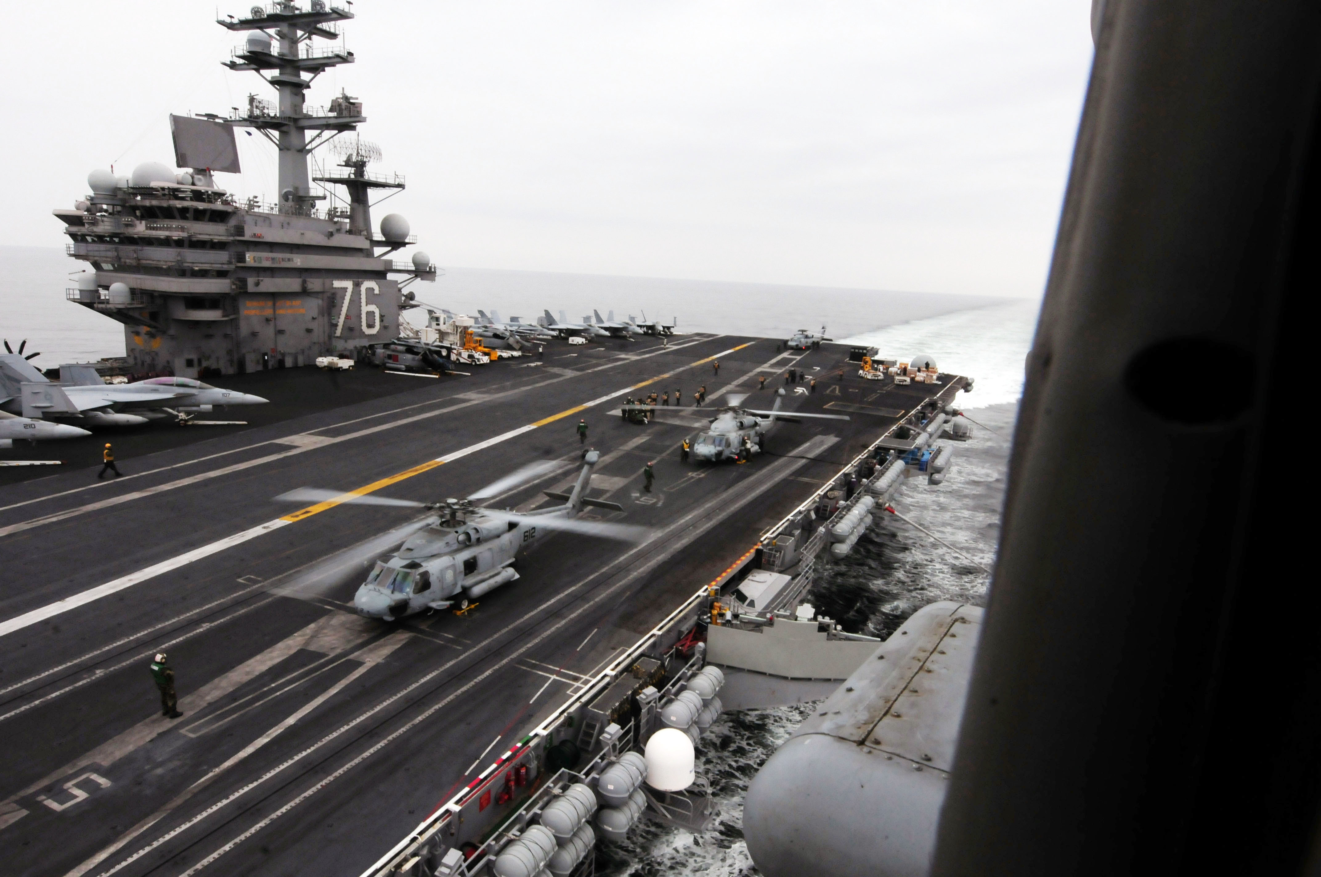 PACIFIC OCEAN (March 15, 2011) HH-60H Sea Hawk helicopters from the Black Knights of Helicopter Anti-Submarine Squadron (HS) 4 prepare to lift off after resupplying on the flight deck of the aircraft carrier USS Ronald Reagan (CVN 76). Ships and aircraft from the Ronald Reagan Carrier Strike Group are conducting search and rescue operations and resupply missions throughout northern Japan. Ronald Reagan is underway off the coast of Japan to provide humanitarian assistance as directed in support of Operation Tomodachi. (U.S. Navy photo by Mass Communication Specialist 3rd Class Alexander Tidd/Released)